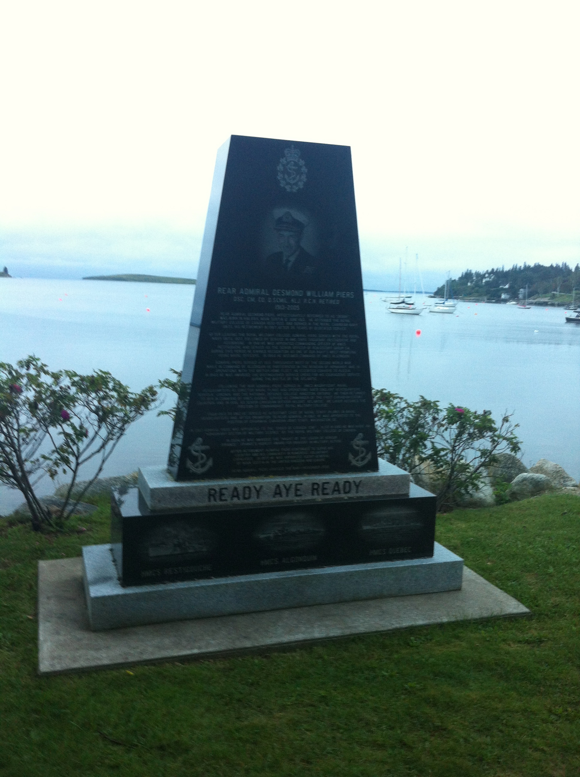 Desmond Piers Monument Chester Nova Scotia